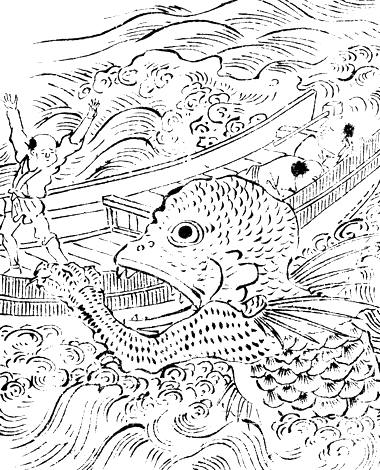 Umibōzu (a giant monster appearing on the surface of the sea) from the Bakemonochakutōchō